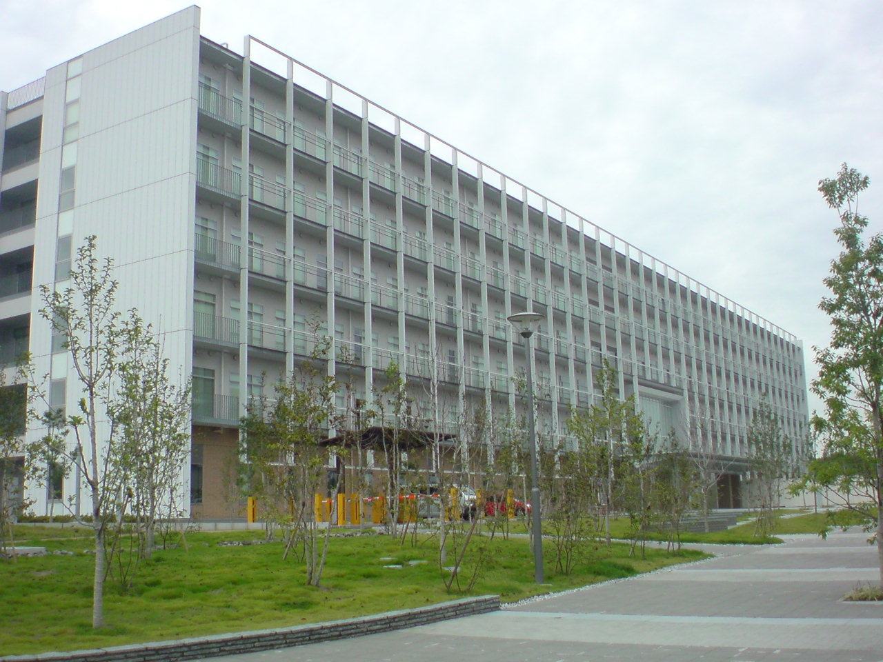 National Institute of Japanese Literature, Tachikawa City, Tokyo Pref., Japan